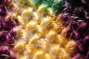 A close-up image of the fabric Rayon for the Rayon article on Wikipedia. Taken using a Sony W7 digital camera equipped with macro lenses. The fabric is a skirt. The image is my own, released for all use.